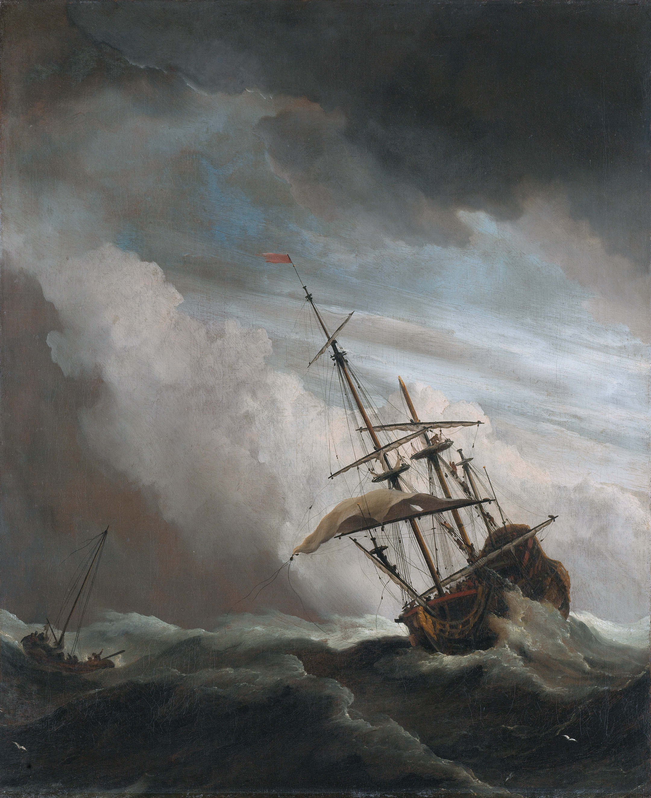 A ship in high seas in a heavy storm. A three-masted ship on a high wave. To the left a smaller vessel. Pendant of File:Het Kanonschot - Canon fired (Willem van de Velde II, 1707).jpg.